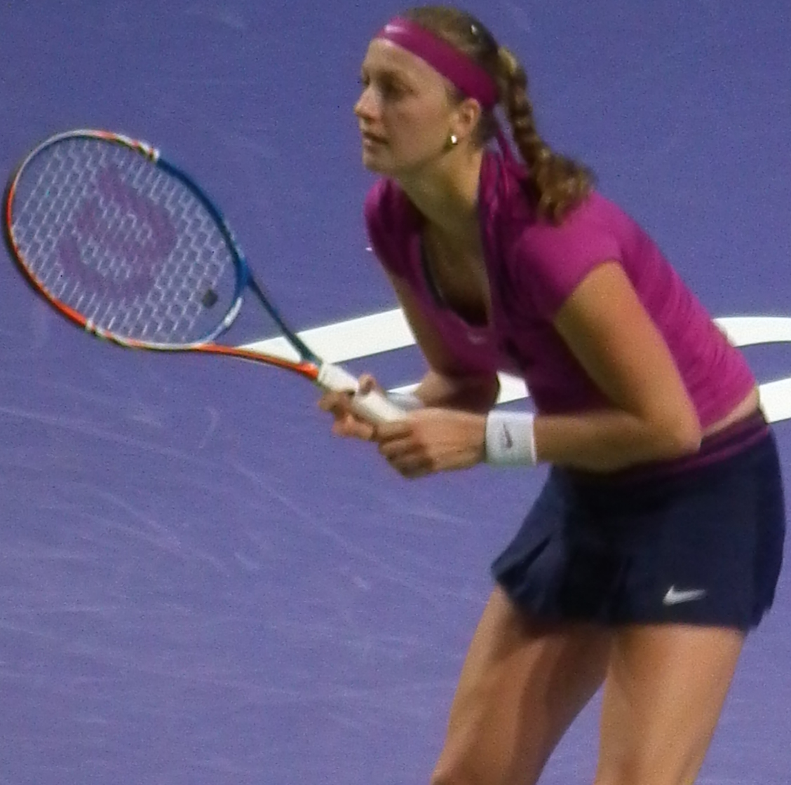 Petra Kvitová at WTA Istanbul 2011